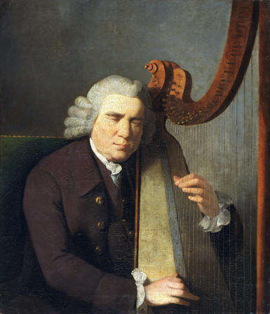 John Parry (1717-1782), Welsh blind harpist.